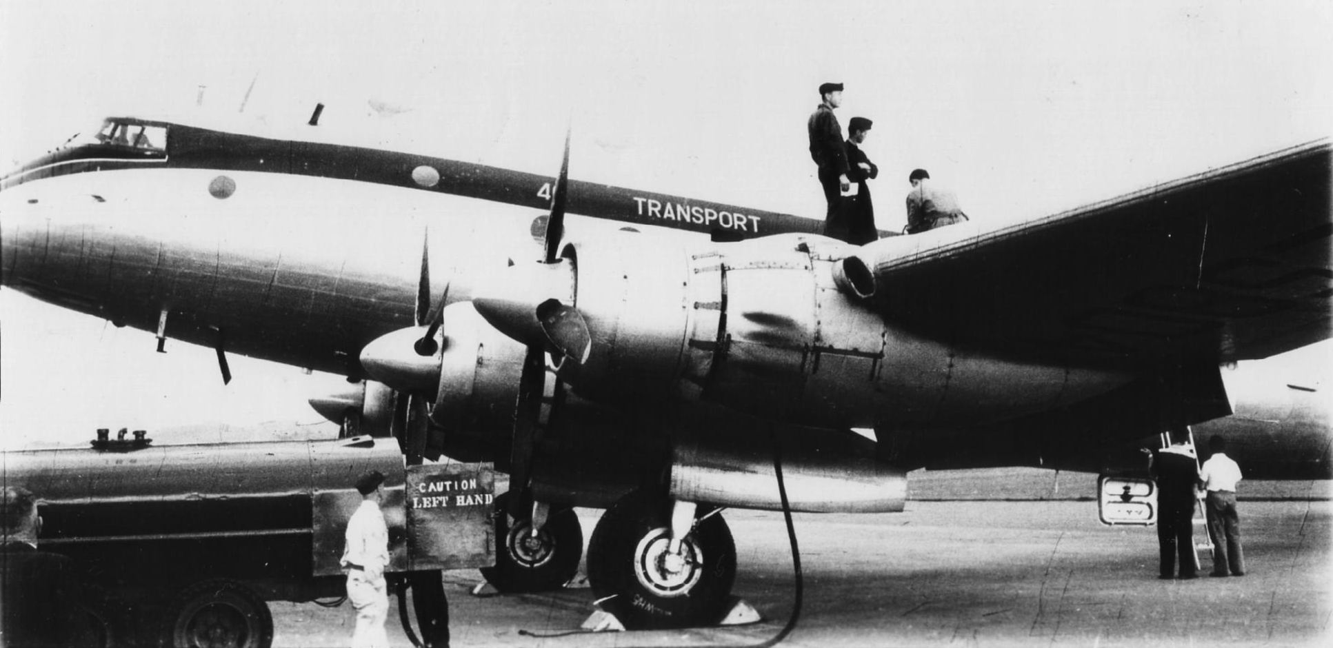 Photograph of No. 40 Squadron RNZAF Handley Page Hastings taken by Ron Boyes in the 1950s, remained on undeveloped roll of film until processed and printed in 1990s.